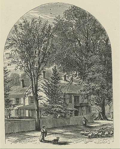 Exeter, New Hampshire, home of Nicholas Gilman (1755–1814), American Revolutionary patriot, signer of United States Constitution from New Hampshire. Retouched by MarmadukePercy